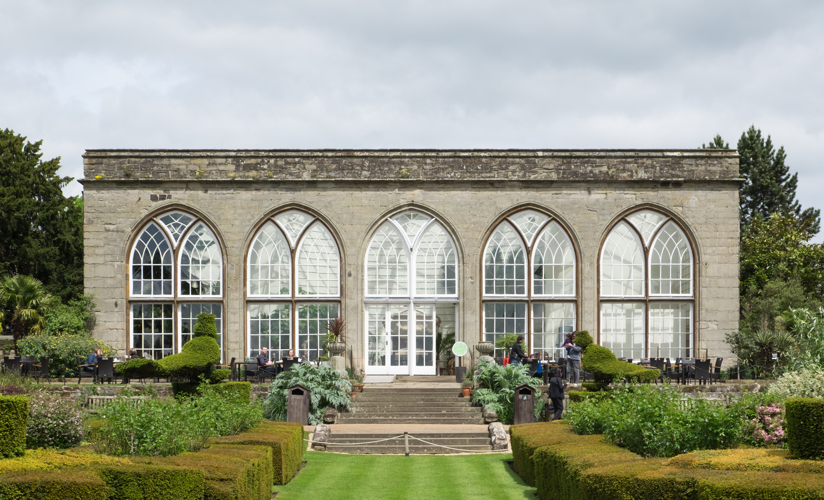 Warwick Castle Conservatory. This is a Grade II* listed building in England.